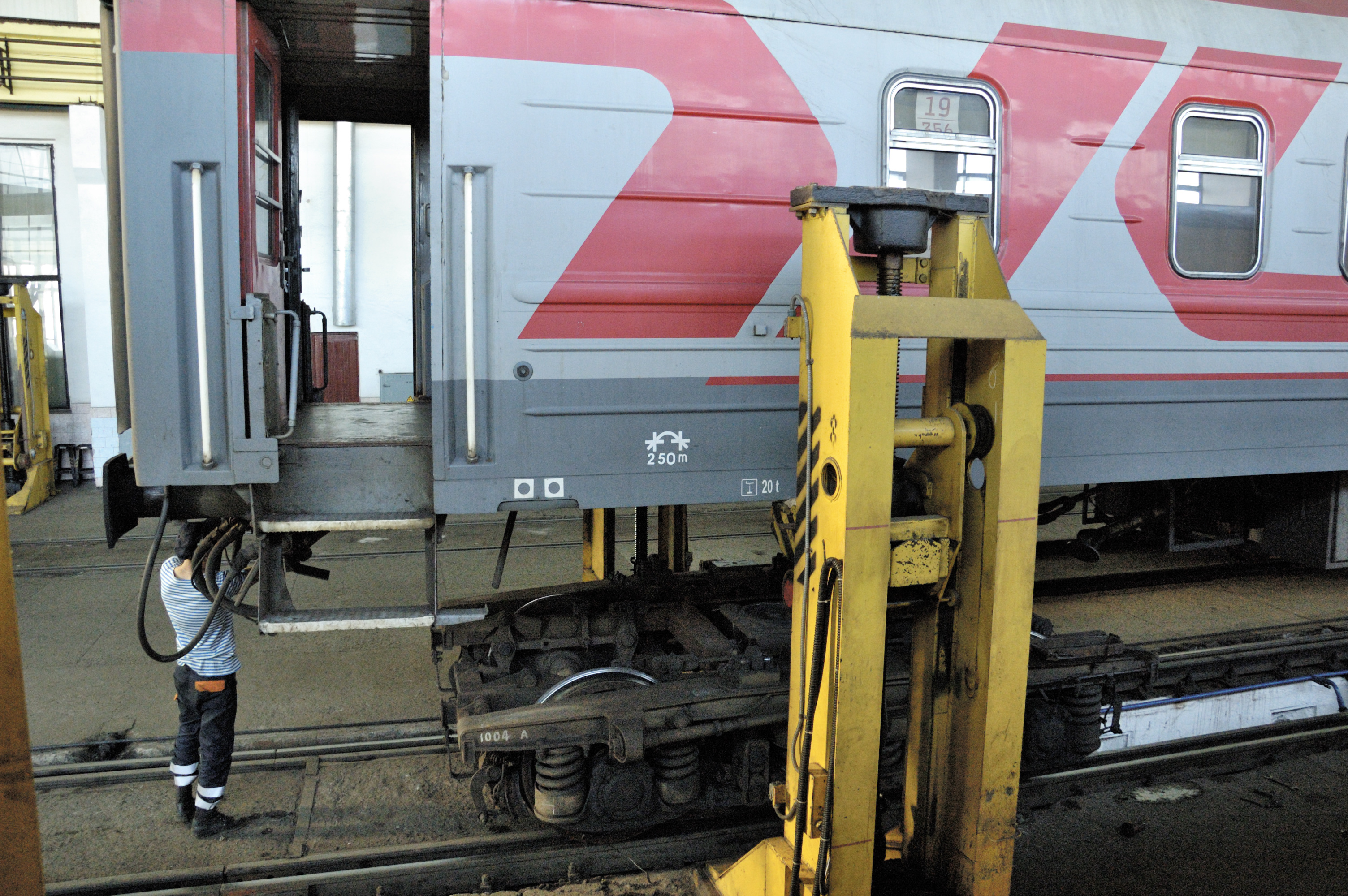 Gauge changing in Brest, Belarus